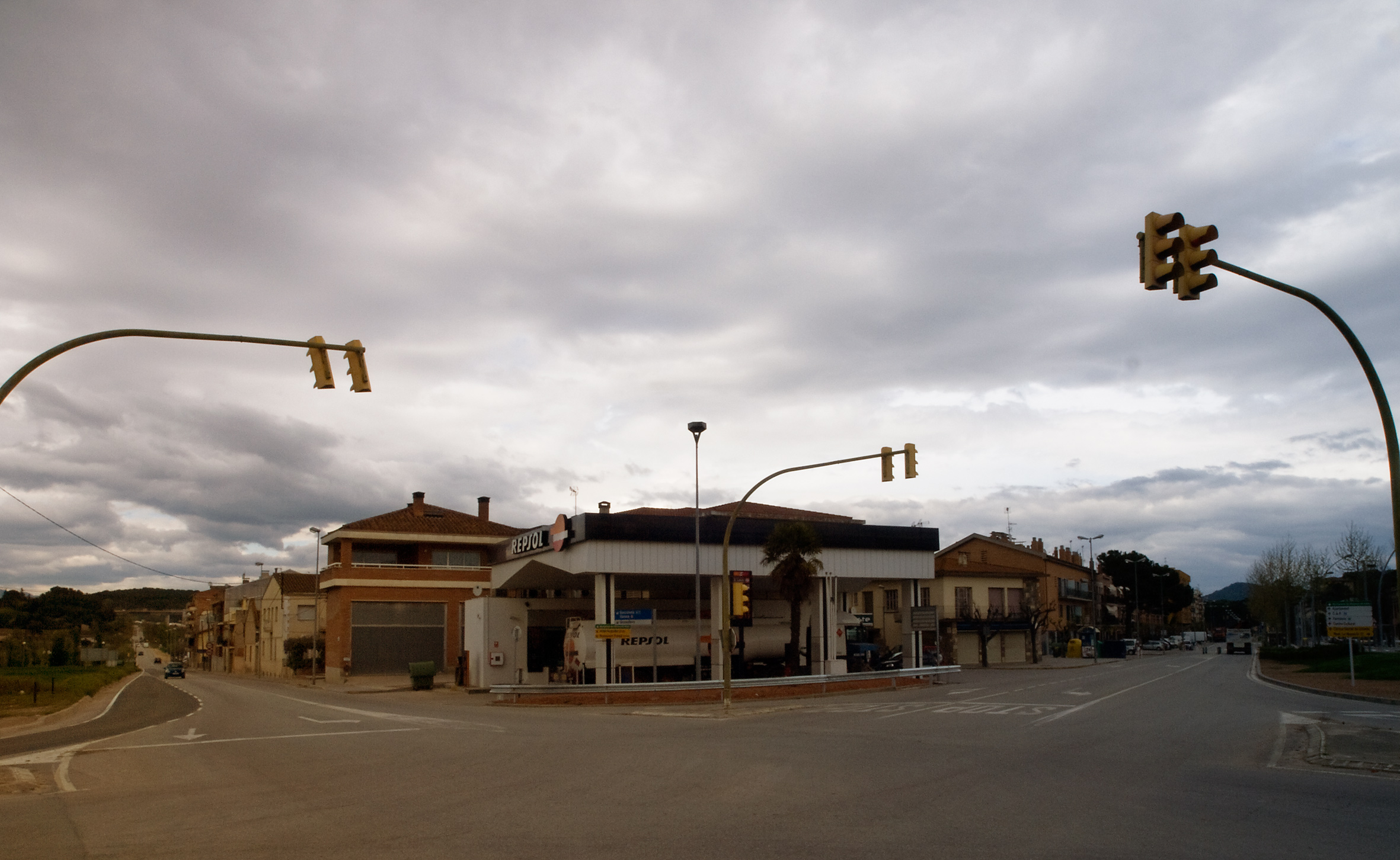 Crossroad of Vilanova del Vallès.